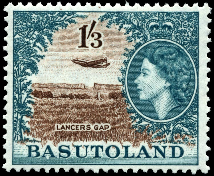 Basutoland 1sh3p stamp of 1954